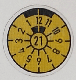 ITV sticker in german license plate